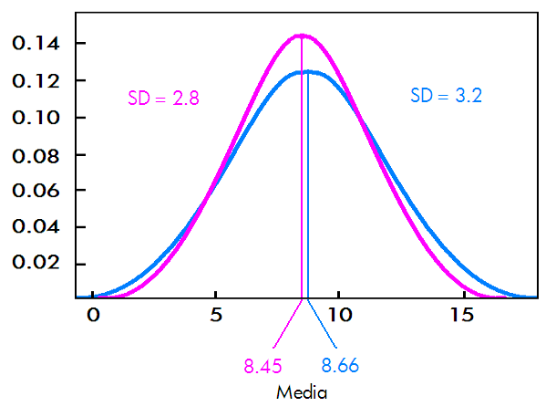 Bell curve comparations based in Sex differences in means and standard deviations for Armed Services Vocational Aptitude Battery (ASVAB) subtests and total scores and for Armed Forces Qualification Test (AFQT) scores.